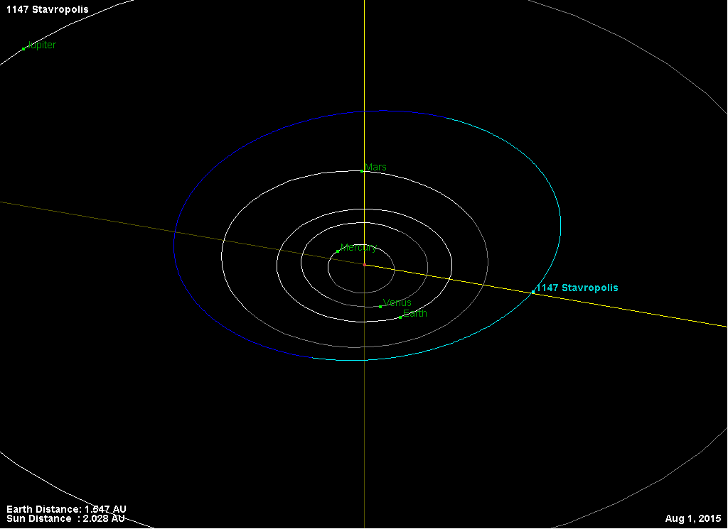 1147 Stavropolis orbit and his position on 01 Aug 2015 (NASA Orbit Viewer applet)